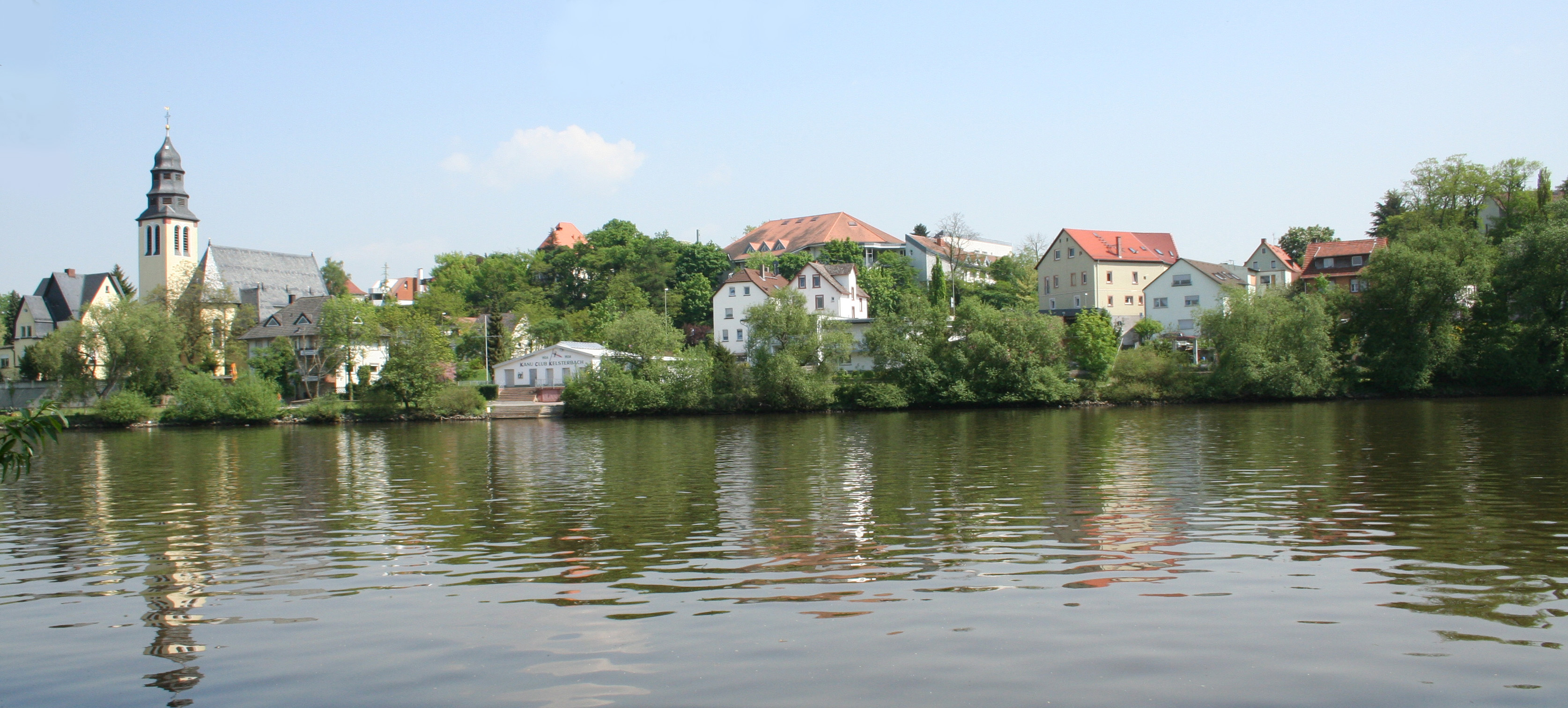 Kelsterbach viewed from Frankfurts riverside of Main